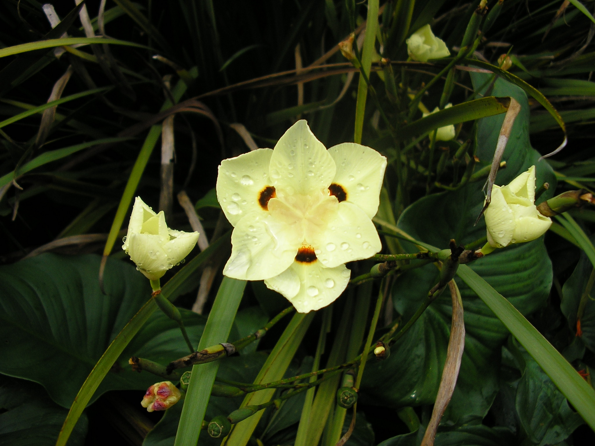 A dew-flecked Yellow Wild Iris (Dietesbicolor) bloom between two buds.